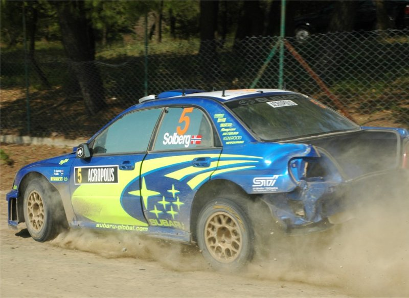 Petter Solberg driving a Subaru Impreza WRC at the 2005 Acropolis Rally.